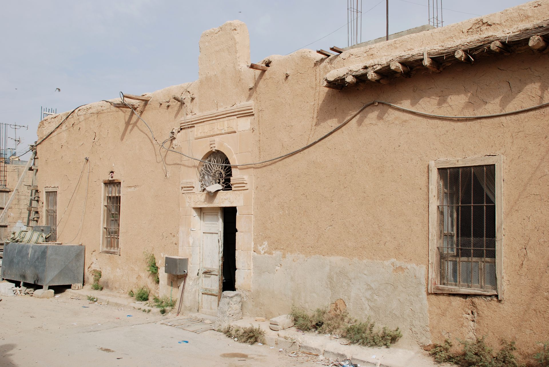 Al-Dumayr, Syria, traditional house